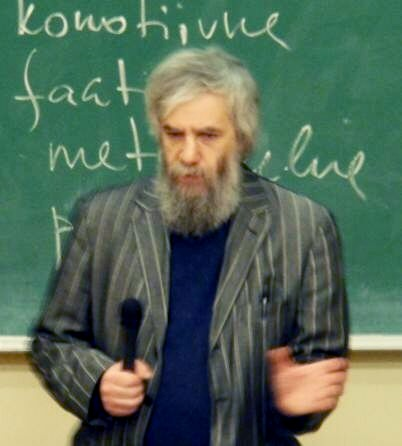 Estonian literature researcher and politician Mihhail Lotman giving a lecture in 2009.